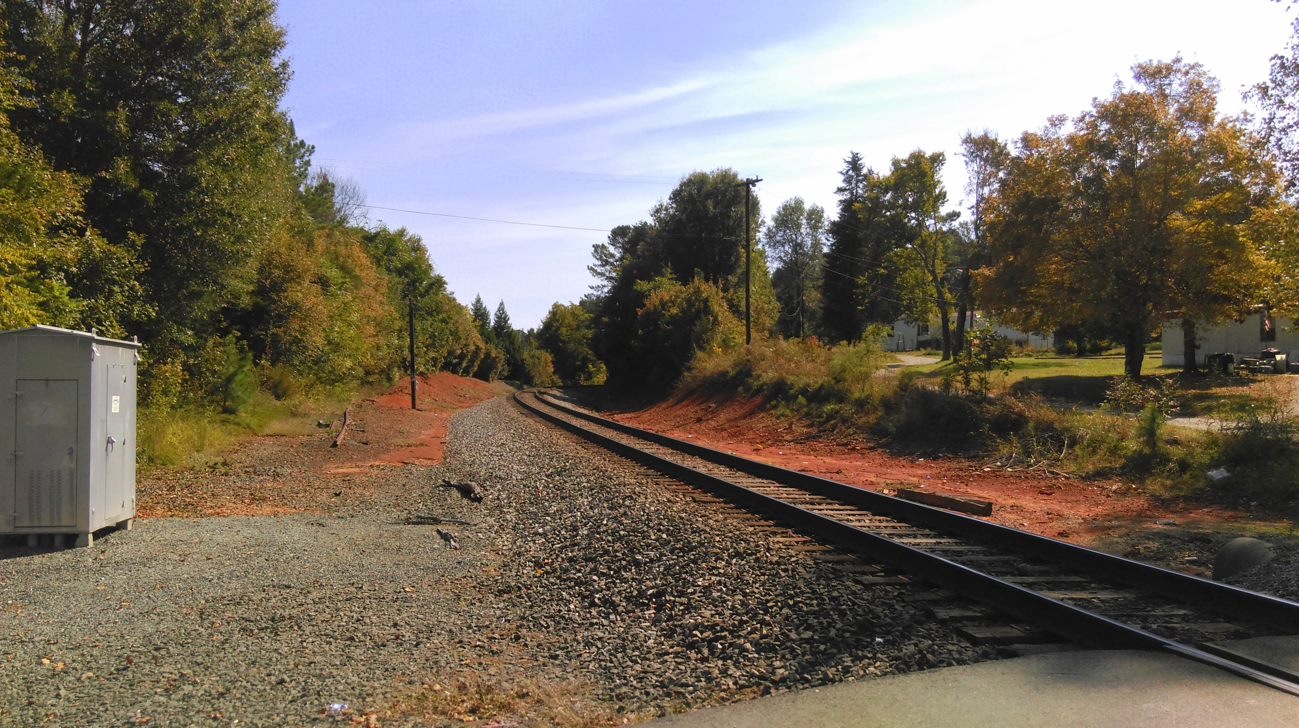 Future site of Hillsborough station on the North Carolina Railroad in October 2016